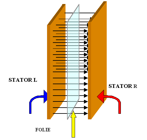 Electrostatic loudspeaker diagram.